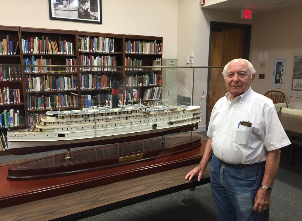 am Schulman in front of a model of the President Warfield, which later became renamed Exodus 1947, at the Jewish Museum of Maryland